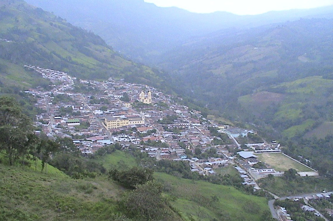 Picture of Gramalote Norte de Santander Colombia